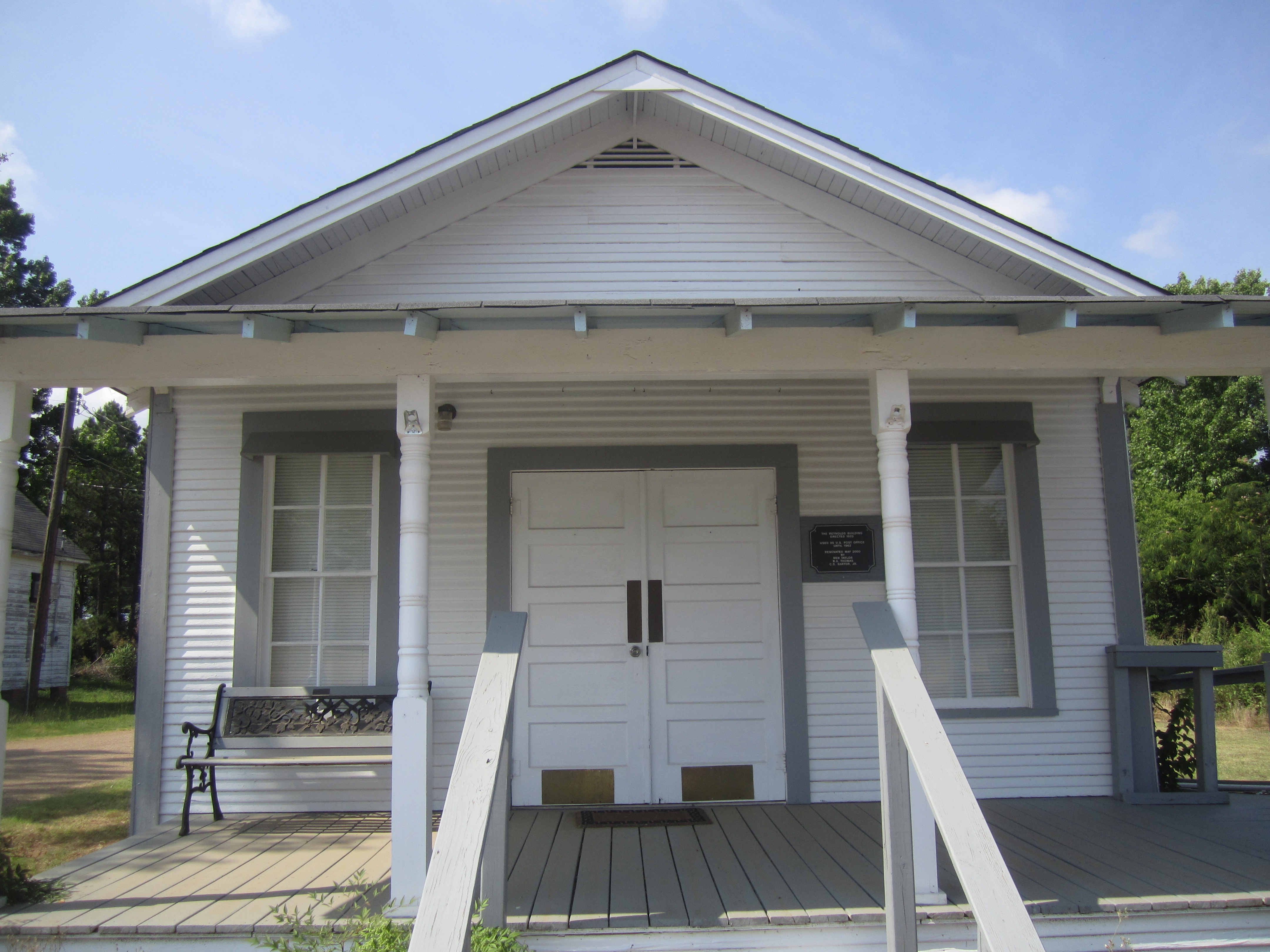 I took photo on June 9, 2012 in Ida, LA, of former post office converted into a now military museum. Billy Hathorn (talk) 02:42, 28 June 2012 (UTC)